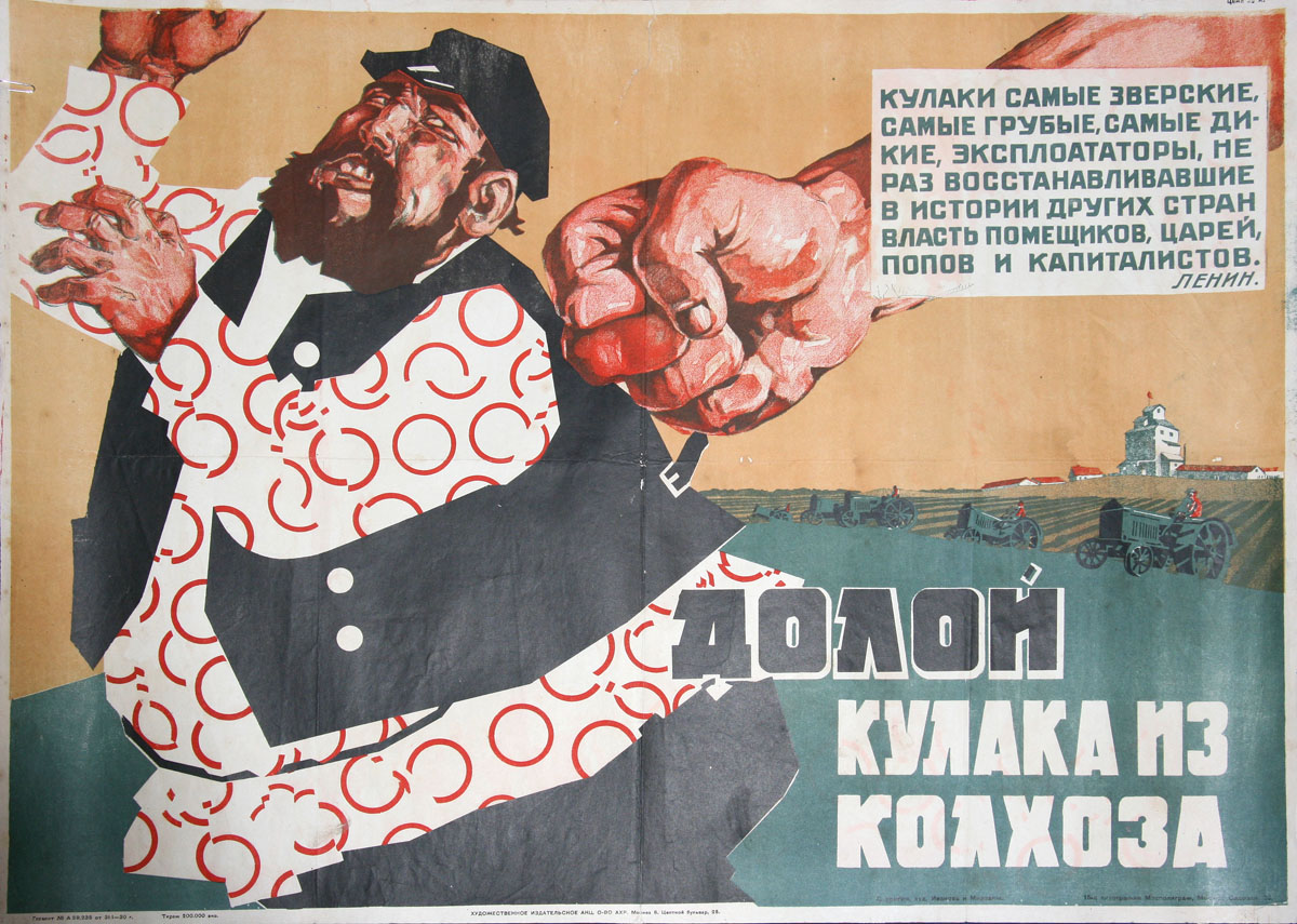 Kulak poster. Top: Kulaks are the most brutal, the most tough, the most wild exploiters, that more than one time in history of other countries have restored the power of landowners, kings, priests and capitalists. Lenin. Bottom: Down with the kulaks from the collective farms.